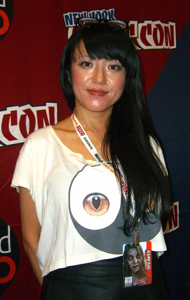 Comics creator Misako Rocks! on Day 4 of the 2012 New York Comic Con, Sunday October 14, 2012 at the Jacob K. Javits Convention Center in Manhattan. This photo was created by Luigi Novi. It is not in the public domain, and use of this file outside of the licensing terms is a copyright violation.